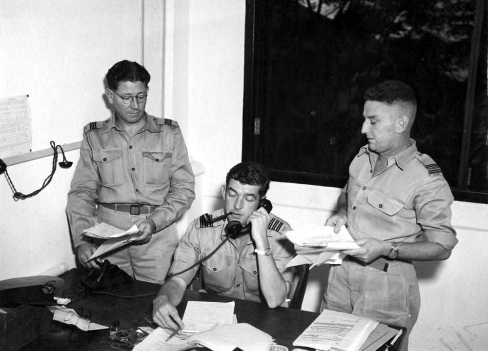 R.A.A.F. officers round a desk at 90 Wing Headquarters, Malaya: Flight Lieutenant G.P. Lane (Brisbane, Qld.) equipment officer, Wing Commander J.F. Lush (Melbourne, Vic.) Temporary Commander 90 Wing, and Squadron Leader G. Moodie (Melbourne, Vic.), senior administration officer.